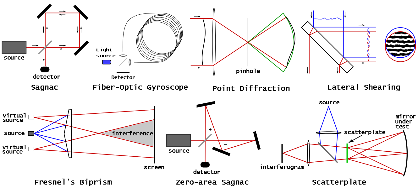 Author: User:Stigmatella aurantiaca with material from User:D. mcfadden Source: Own work, created from Inkscape, with material from File:Fibre-optic-interferometer.svg, created by User:D. mcfadden Fair use rationale: File:Fibre-optic-interferometer.svg was licensed under Creative Commons Attribution-Share Alike 3.0 Unported and GFDL, allowing me to adapt the work into my own.